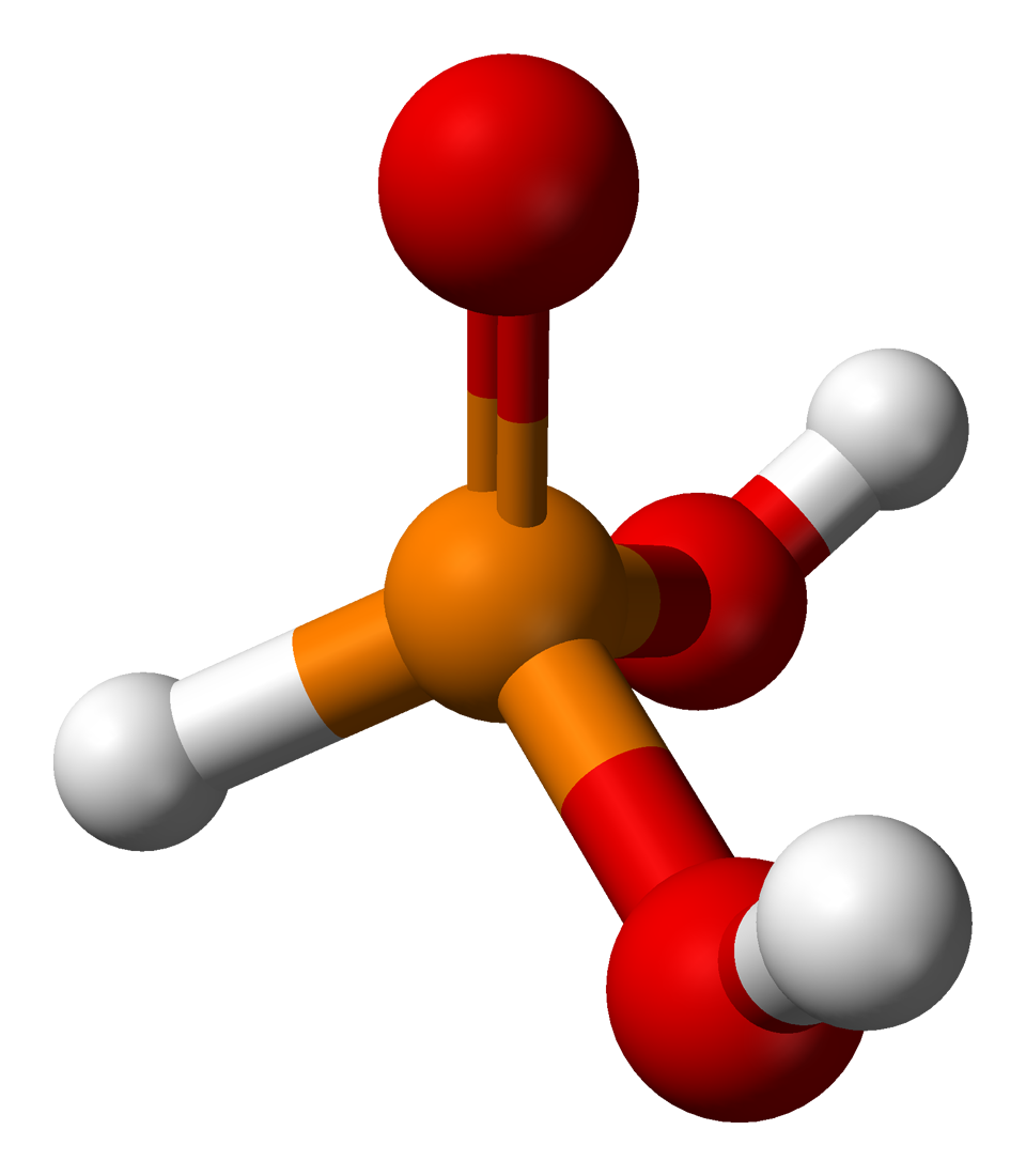 Ball-and-stick model of the phosphonic acid molecule, H3PO3, one of two tautomers of phosphorous acid. Structure calculated using HF/6-31G* in Spartan '04 Student Edition. Image generated in Accelrys DS Visualizer.